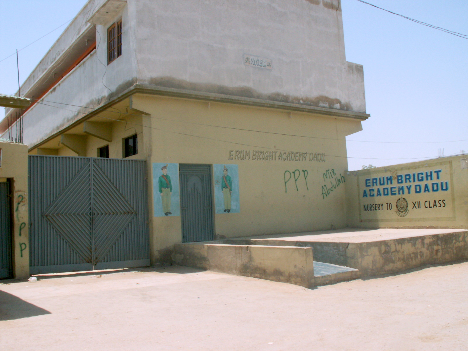 Erum Bright Academy Dadu